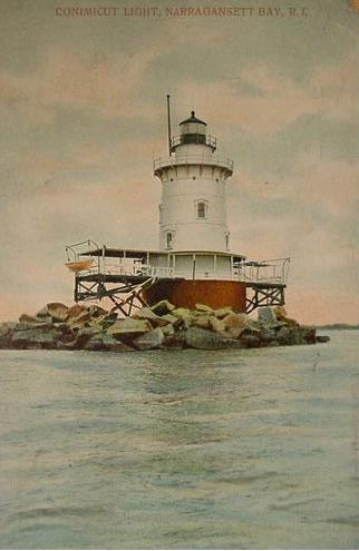 This is my copy of a 1907 postmarked postcard published by W.H. White of Providence, RI.